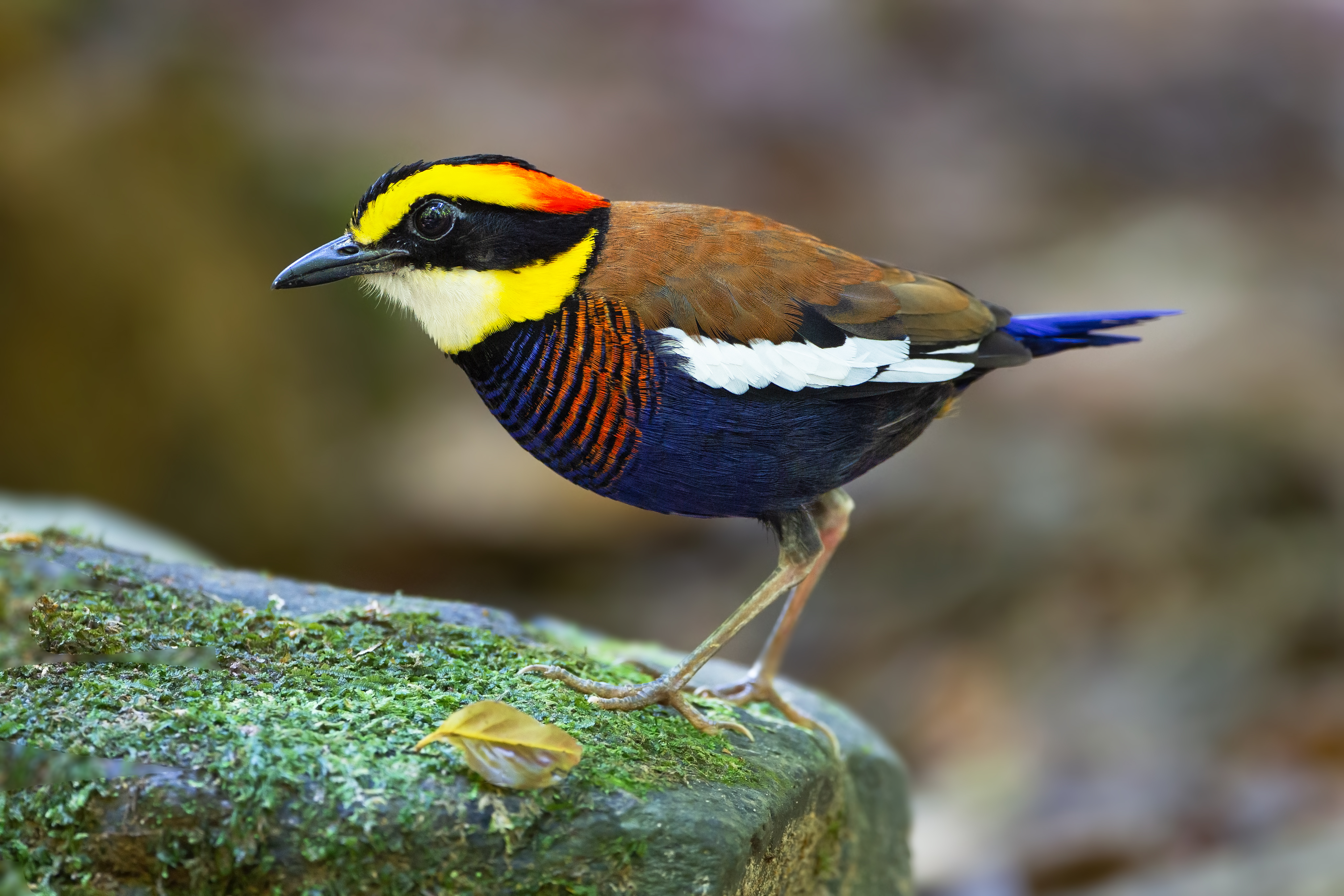 Malayan Banded Pitta (Hydrornis irena), Sri Phang Nga National Park, Phang Nga, Thailand